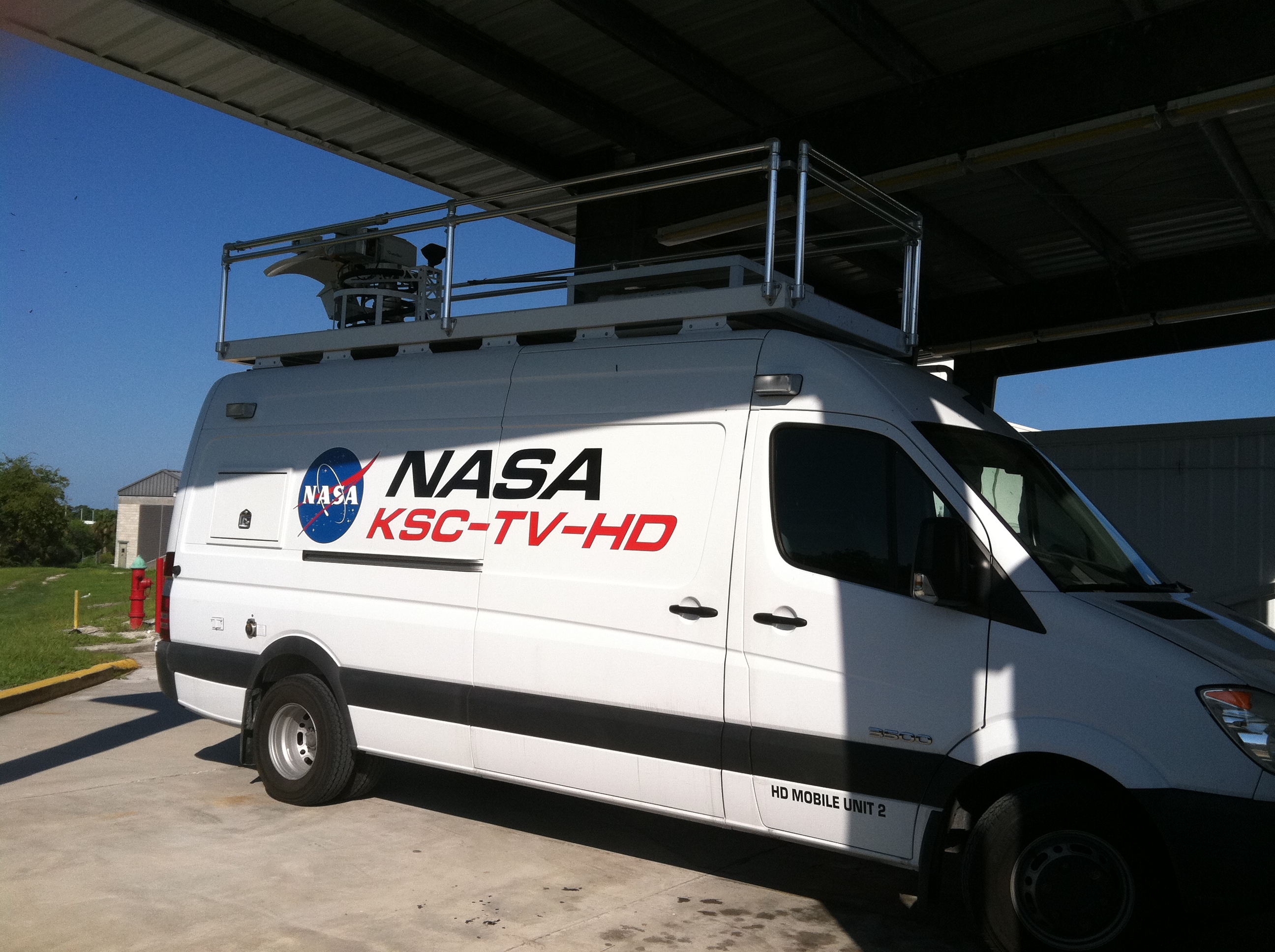 NASA TV remote truck at the Kennedy Space Center press room